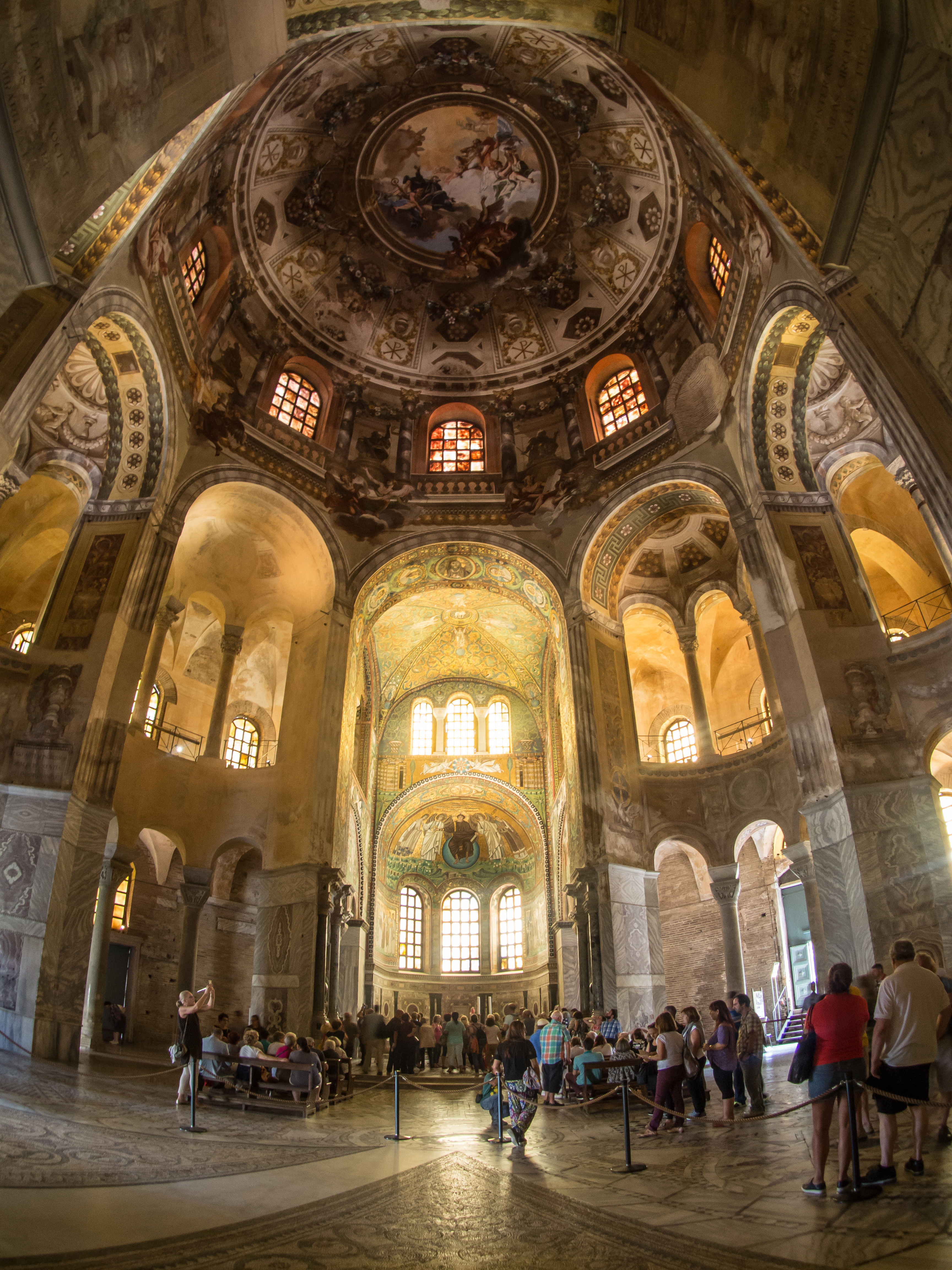 Ravenna - Basilica of San Vitale - inside wideangle